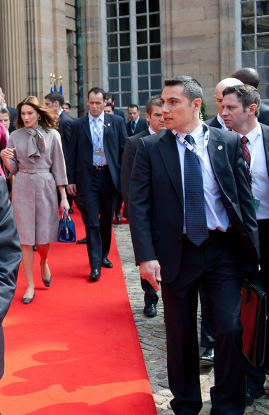 GSPR agents protecting First Lady Carla Bruni.